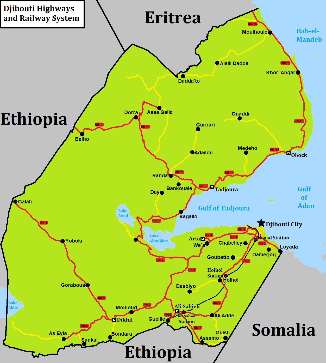 Map of Djibouti Highways and Railway System.